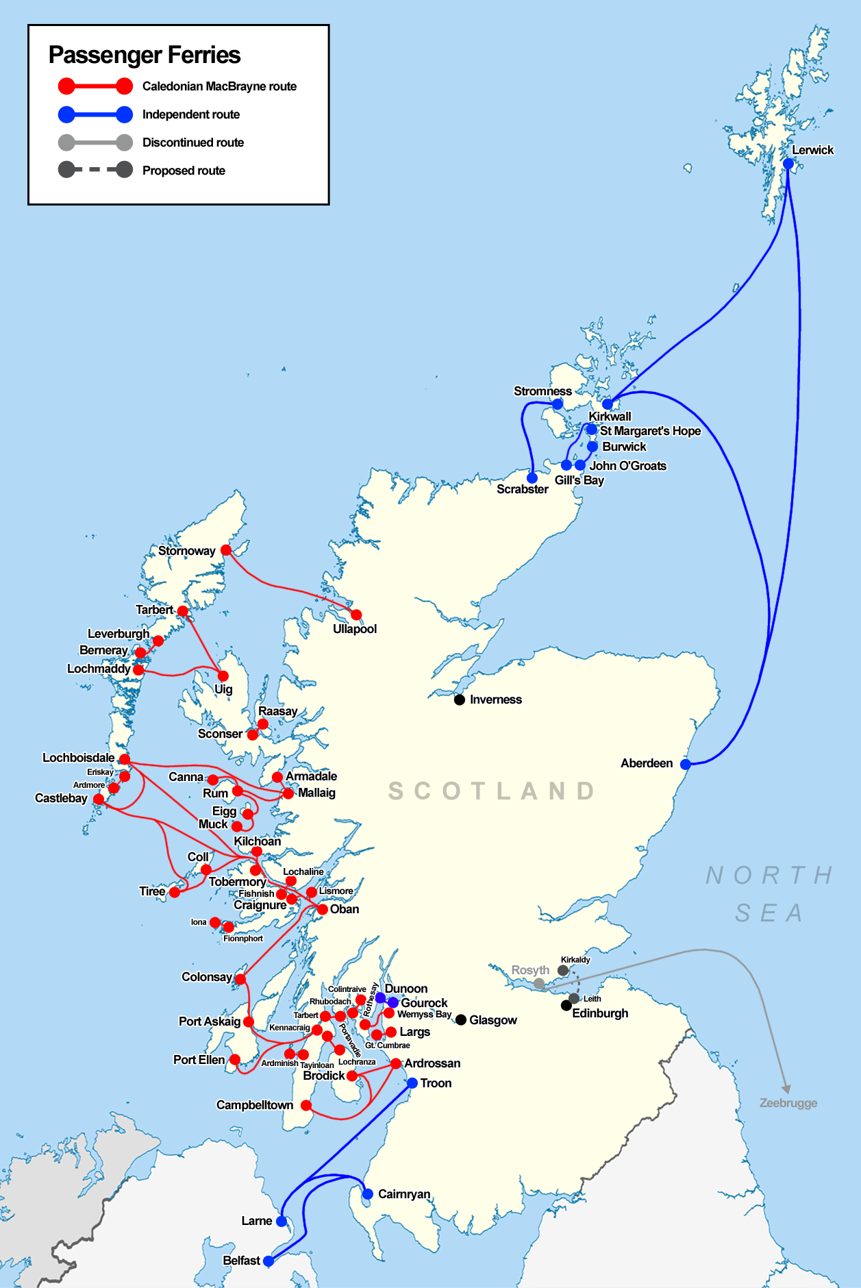 Map of principal passenger ferry services in Scotland in 2014, showing routes of Caledonian MacBrayne, independent operators and discontinued and proposed routes.